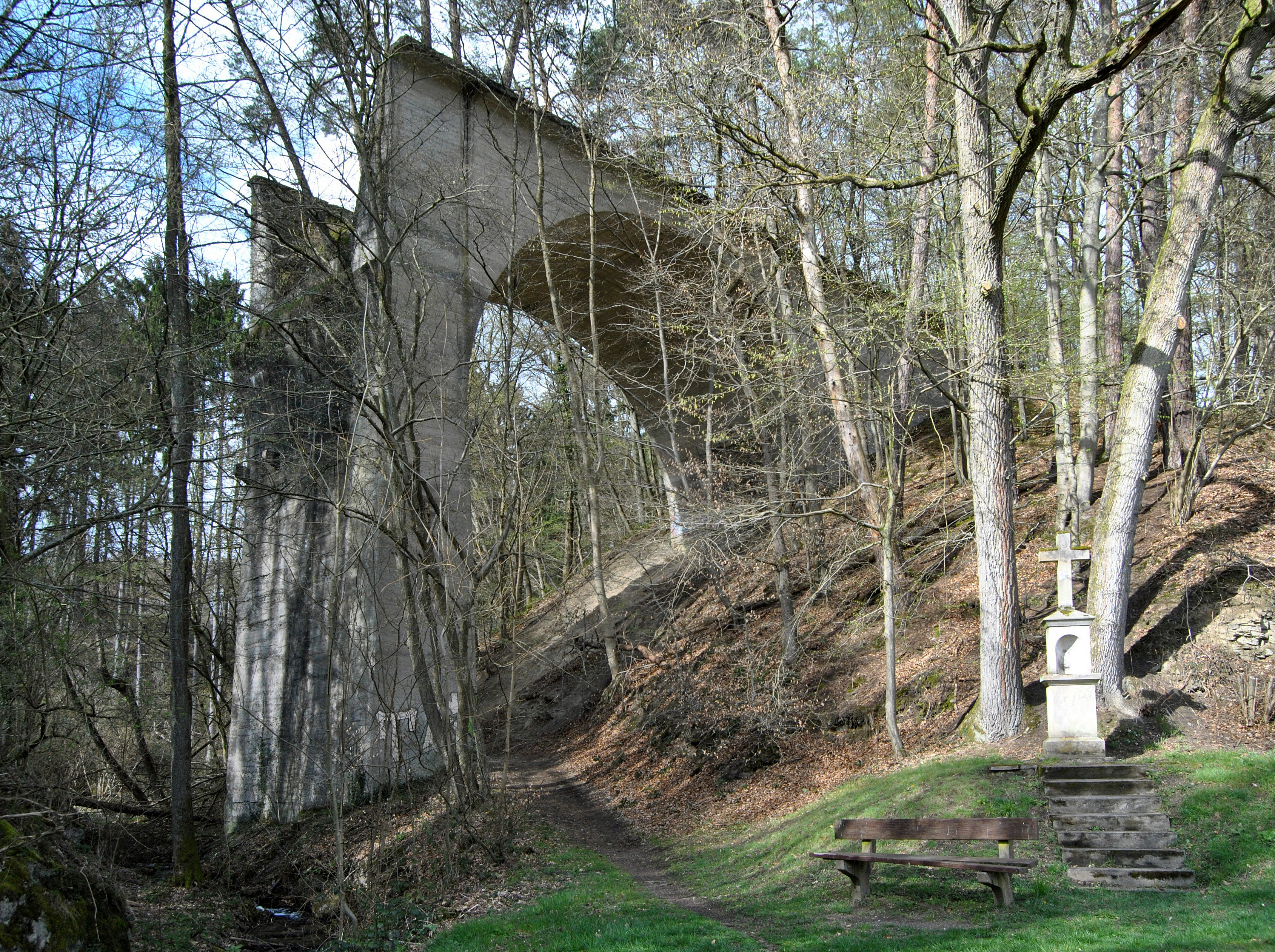 Ummigsbach Bridge near Seligenthal, Siegburg, Germany. Built 1925–27, destroyed by the Wehrmacht in 1945.